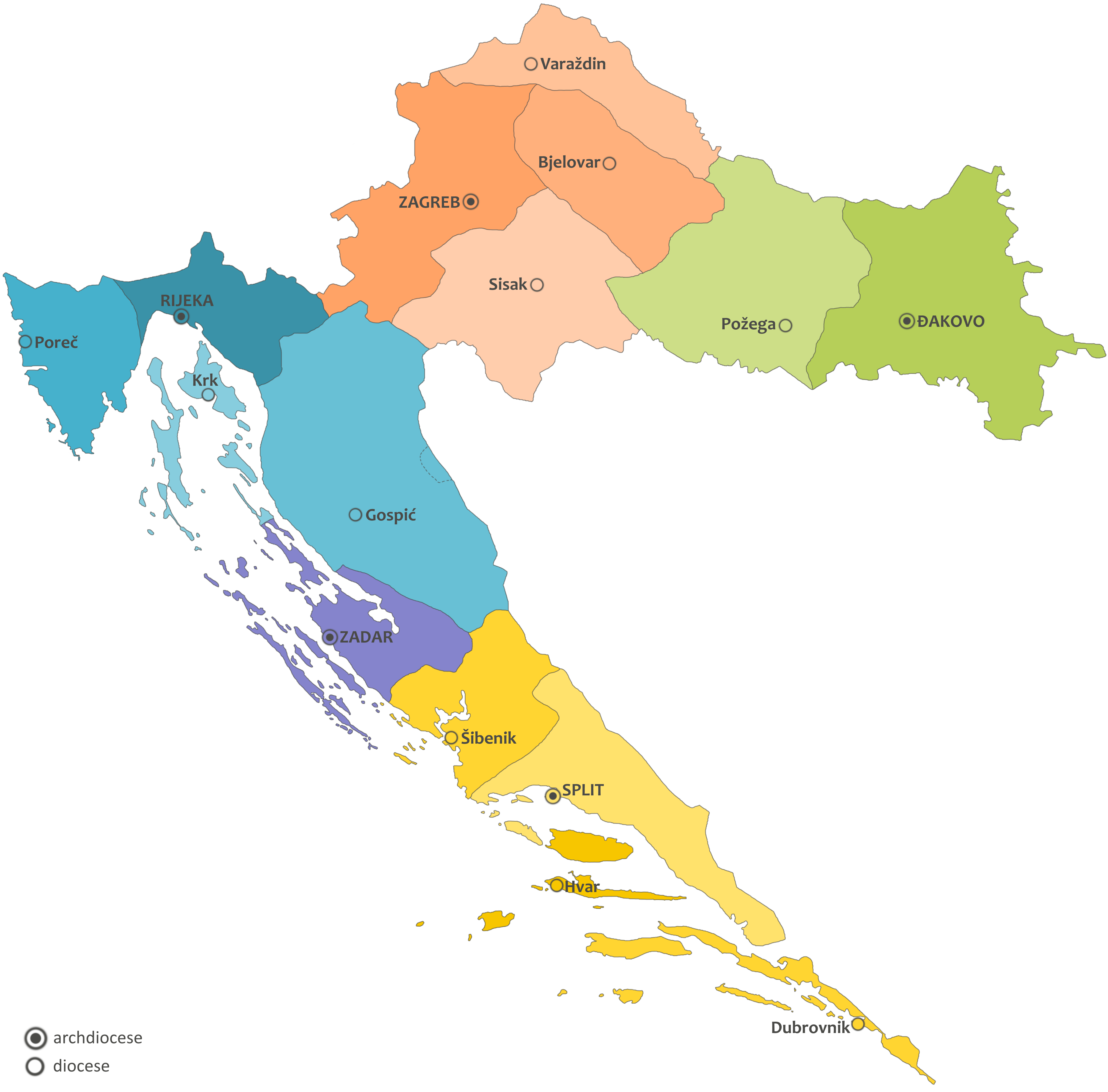 Map of the Roman Catholic dioceses in Croatia (Boundaries of dioceses are approximate.) Archdiocese of Đakovo-Osijek Diocese of Požega Archdiocese of Rijeka Diocese of Gospić-Senj (The territory of the Diocese is partly in Bosnia and Herzegovina. The state border is indicated by a dotted line.) Diocese of Krk Diocese of Poreč-Pula Archdiocese of Split-Makarska Diocese of Dubrovnik Diocese of Hvar-Brač-Vis Diocese of Šibenik Archdiocese of Zagreb Diocese of Bjelovar-Križevci Diocese of Sisak Diocese of Varaždin Archdiocese of Zadar